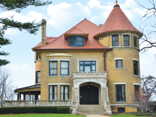 Schnull-Rauch House, located at 3050 N. Meridian Street in Indianapolis, Indiana, United States.